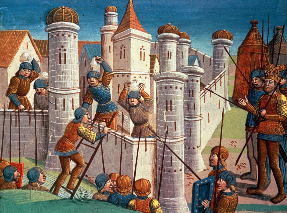 Siege of a city. Painted miniature from a luxury copy of an incunable print of Ogier le Danois, ed. Antoine Vérard, Paris 1496–1499, held at Biblioteca Nazionale, Turin, XV-V-183, fol. diii v. Illustration of a fictional reconquest of Rome from Saracen occupiers by Charlemagne ("Comment le roy charlemaigne fist armer son ost pour aller assaillir romme et comment ... la ville fut prinse...").